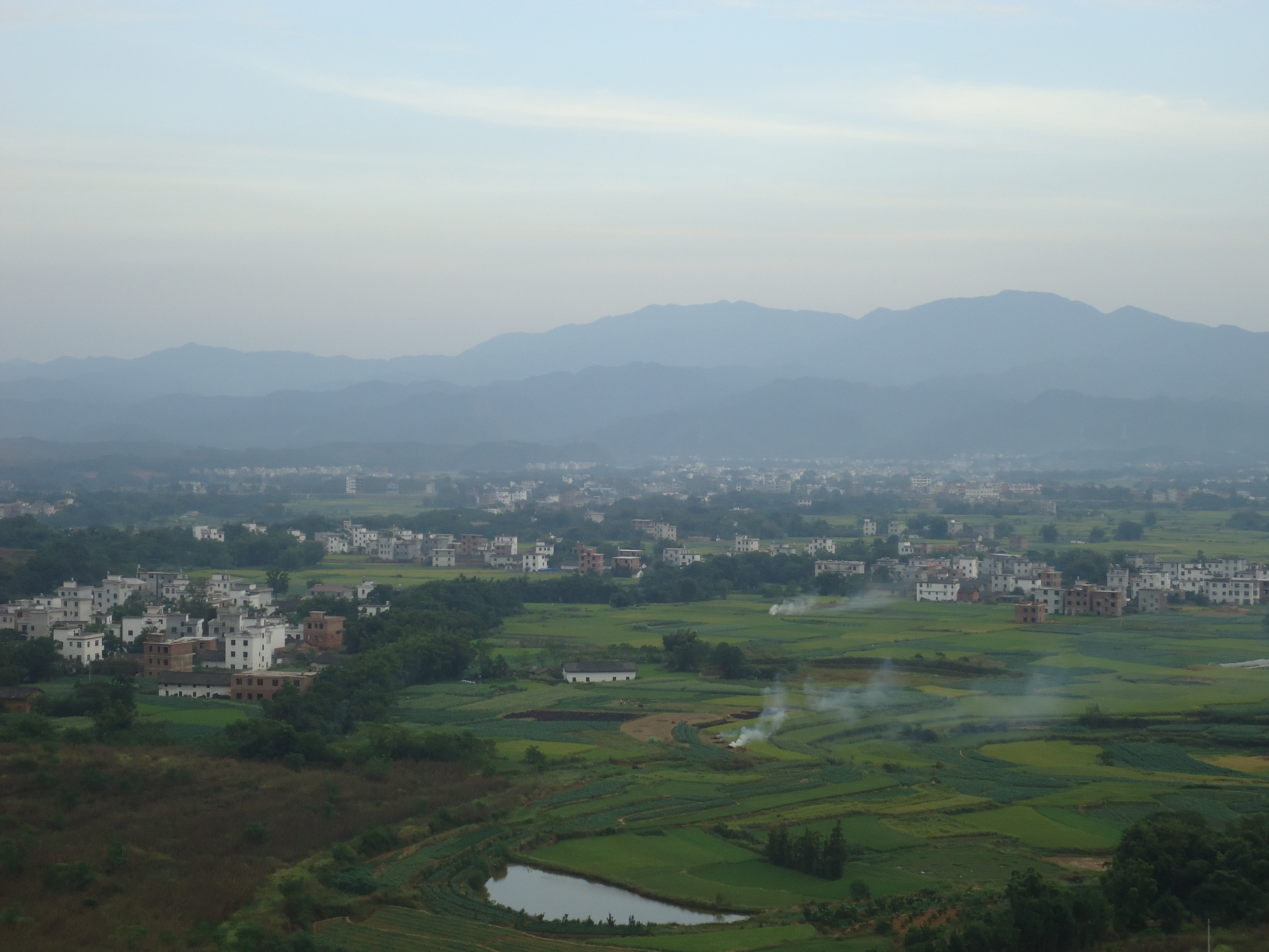 Countryside in Xincheng town,Dayu county, Ganzhou city,Jiangxi province,China